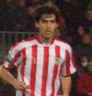 Spanish footballer Andoni Iraola.